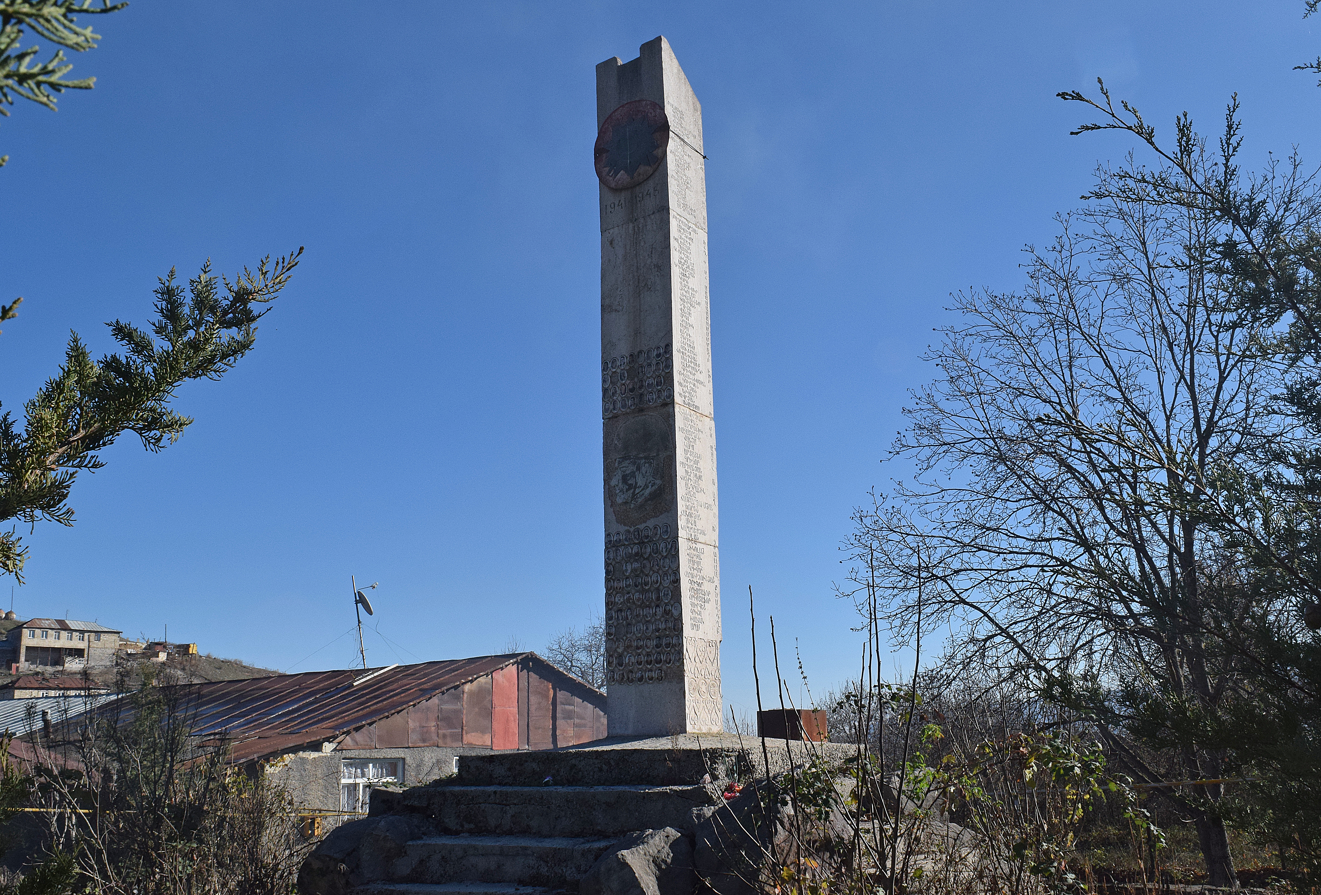 Monument dedicated to WW2